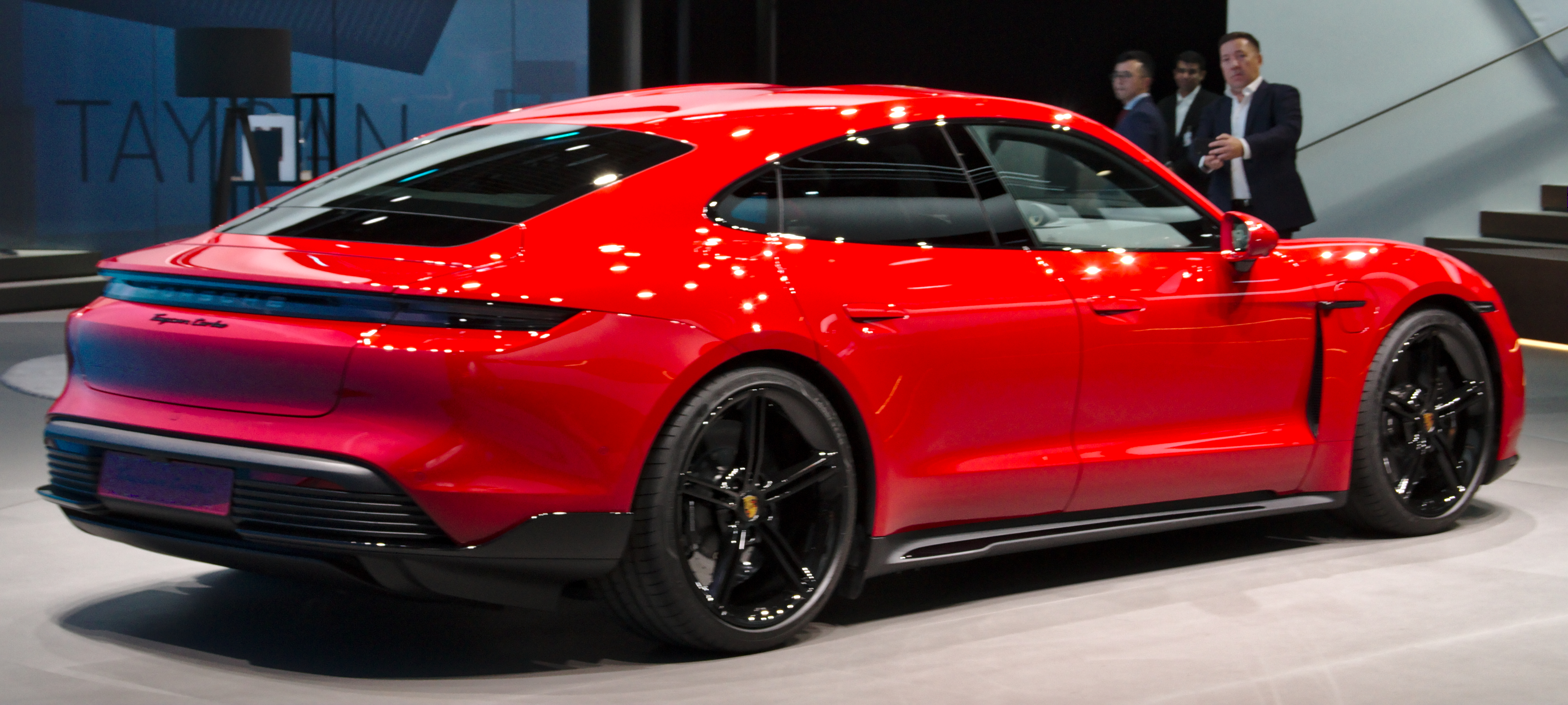 Porsche_Taycan at IAA 2019